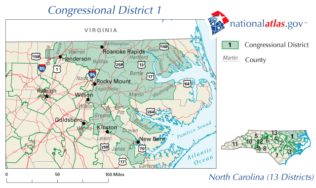 Map of the N.C. 1st Congressional District for the 111th Congress from the U.S. National Atlas